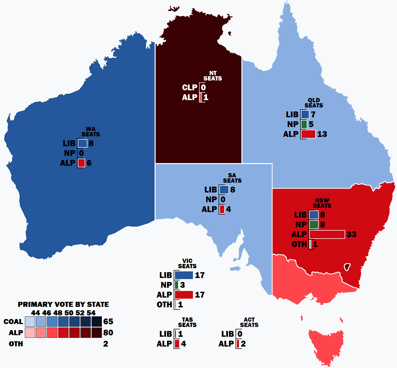 Result of the primary vote by state and territory in the 1993 Australian federal election.